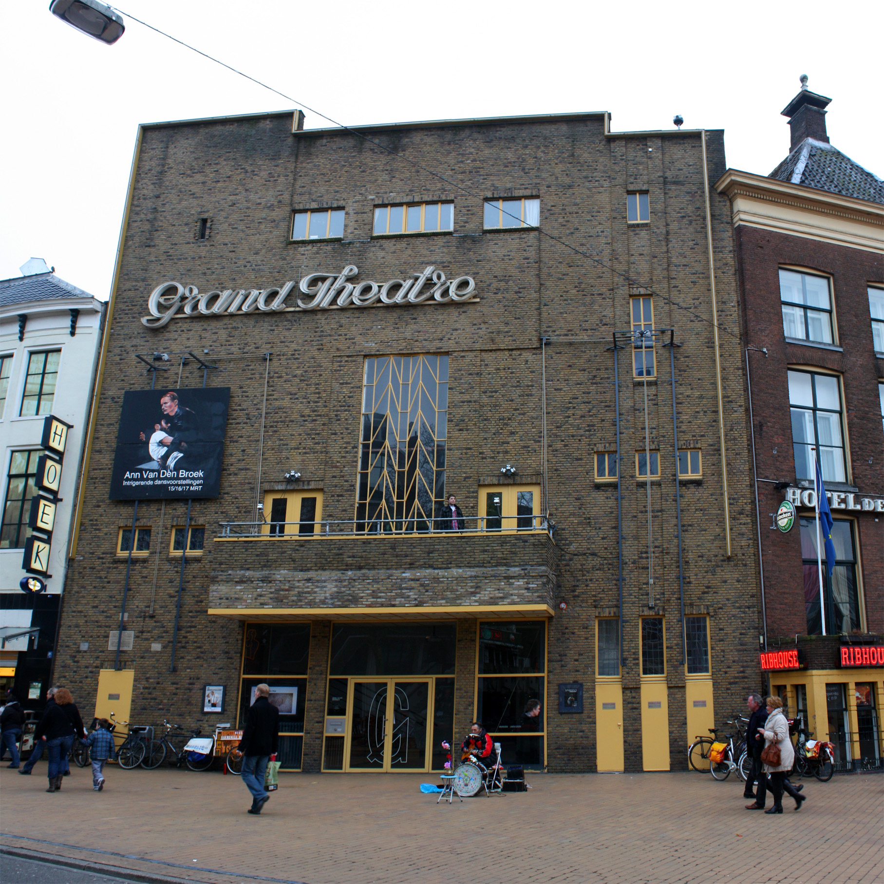 The Grand Theatre on the Grote Markt in Groningen, the Netherlands